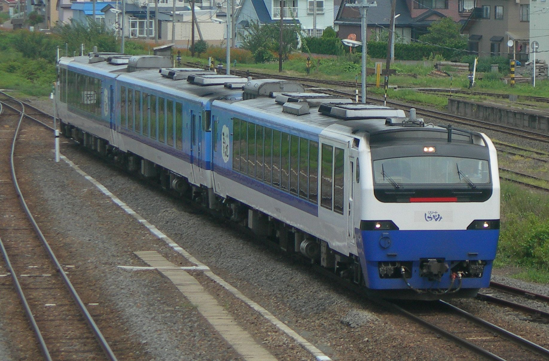 JR East KiHa 40 series "Resort Shirakami - Aoike" 3-car DMU at Goshogawara Station